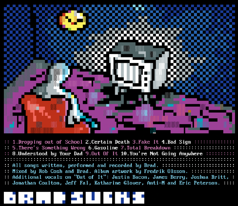 Back cover for Brad Sucks's Out of It